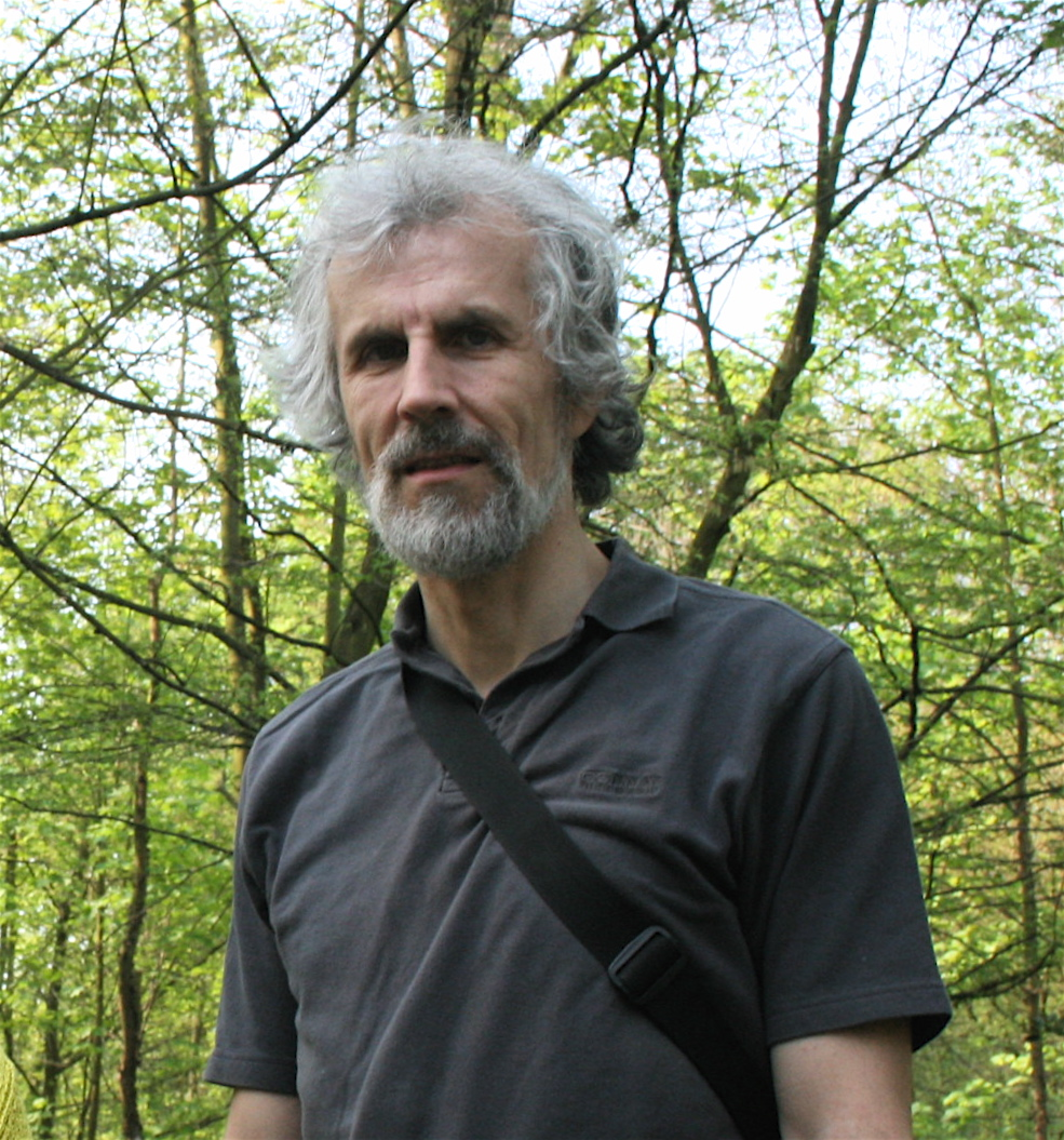 photo of Francis Heylighen